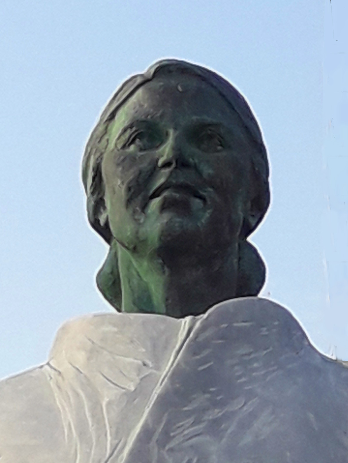 Bust of Müfide İlhan, the first female mayor of Turkey